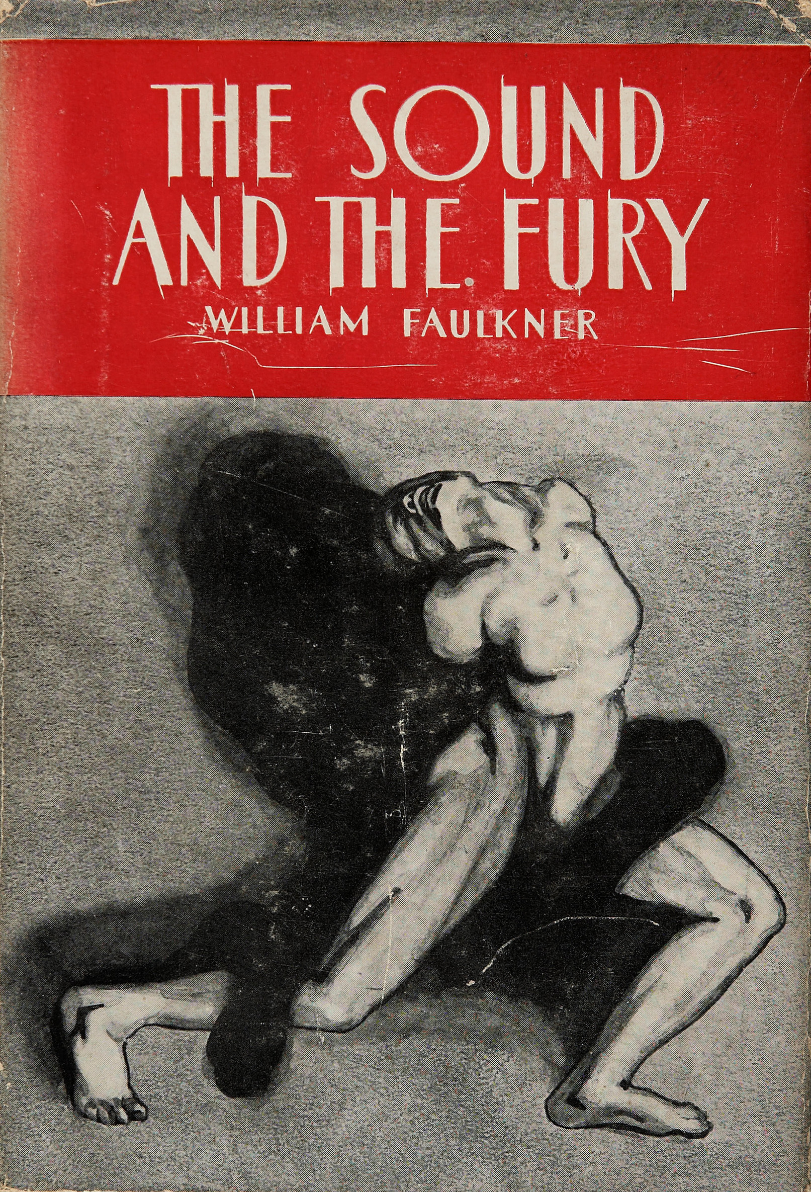 First-edition dust jacket cover of The Sound and the Fury (1929) by the American author William Faulkner.